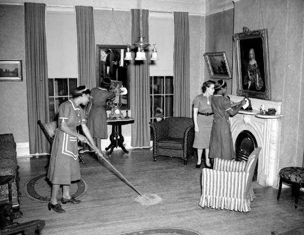 New Orleans, 1939. "Negro Home Service Demonstration Project - Negro home demonstration (aid), 1735 Josephine Street. Interior." This appears to have been a WPA program training African Americans to work as maids and household servants.